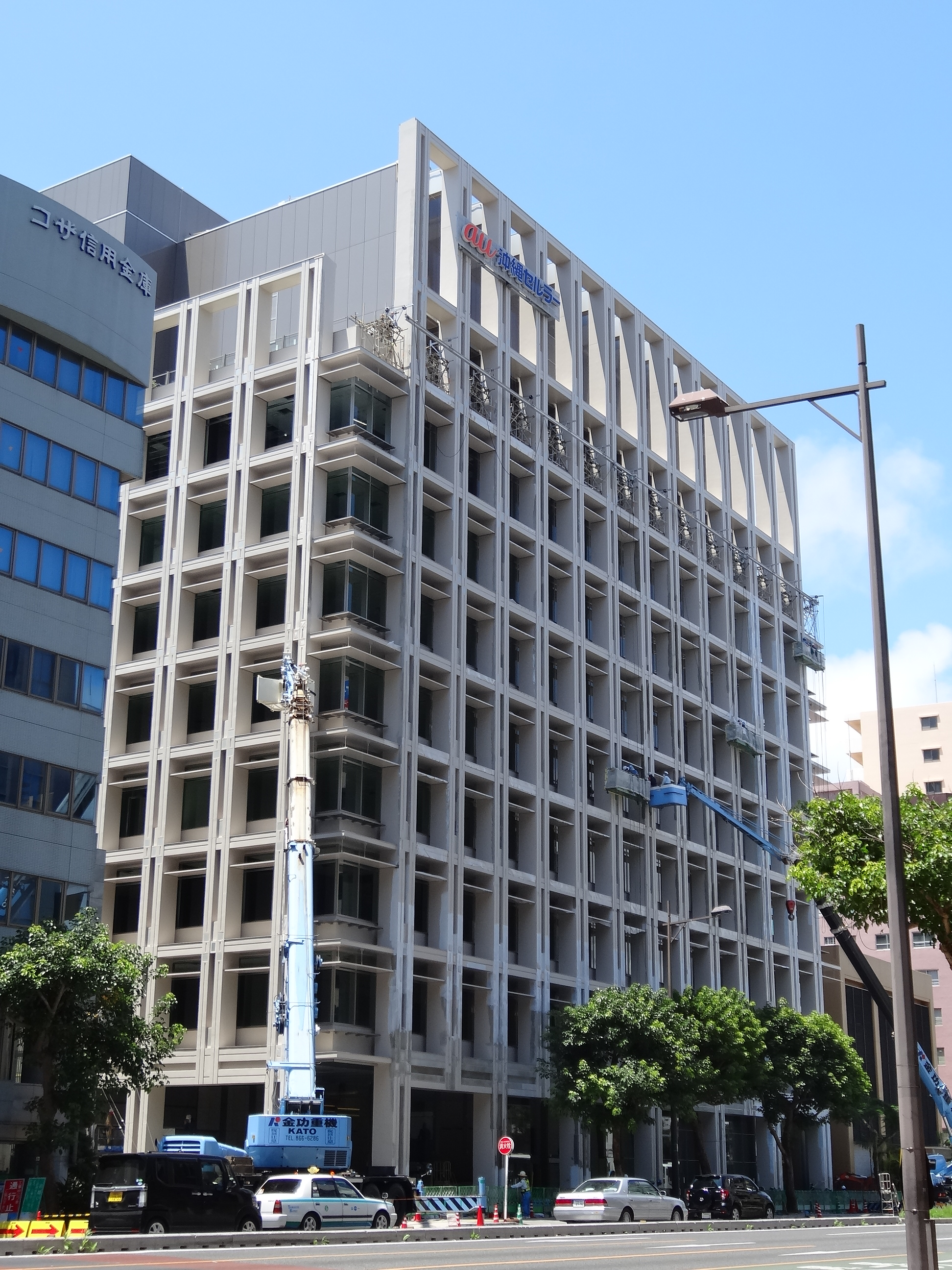 Okinawa Cellular Telephone (KDDI Group) New Head Office on June 2013 (Naha City, Okinawa Prefecture, Japan)